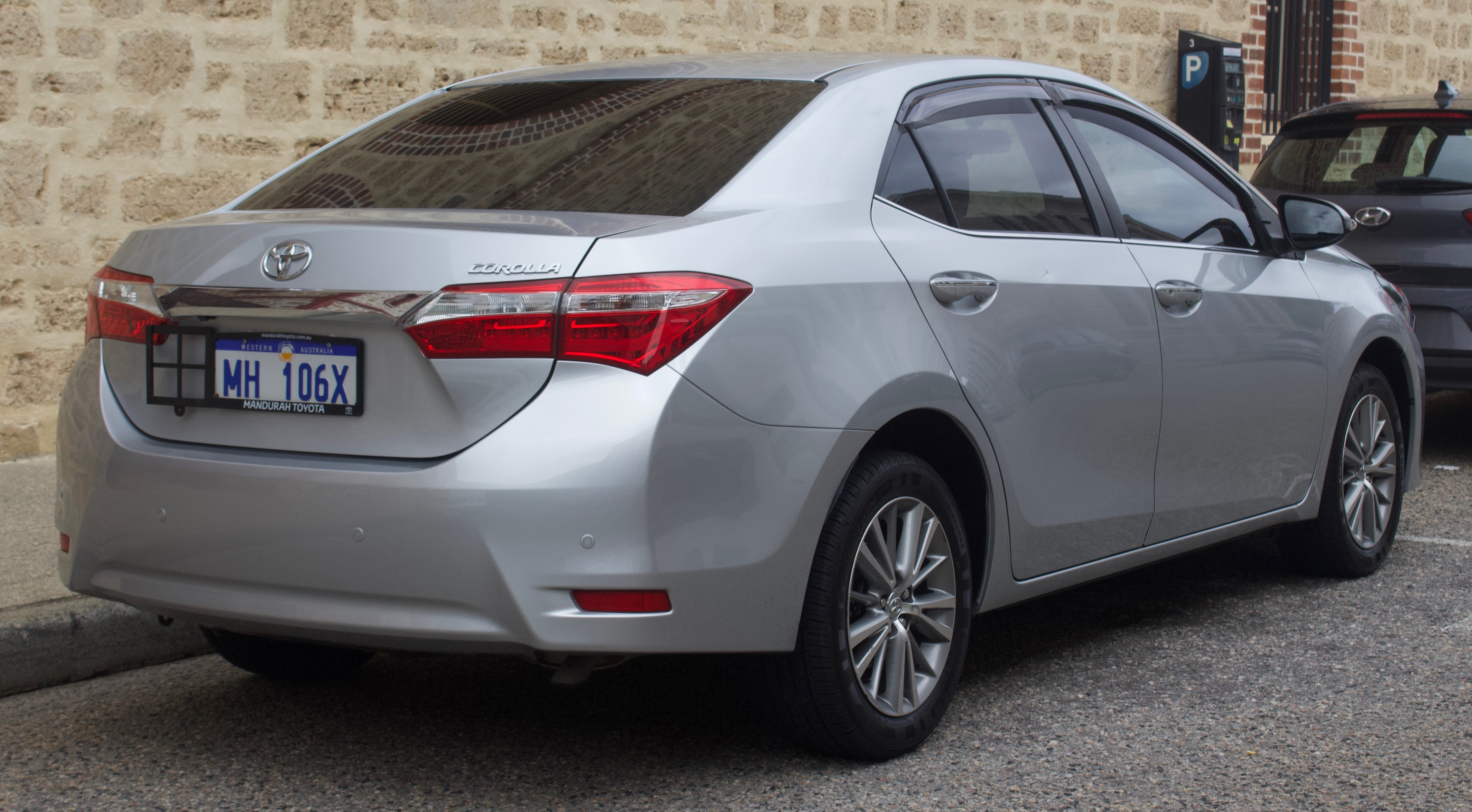 2013-2016 Toyota Corolla (ZRE172R) SX sedan. Photographed in Fremantle, Western Australia, Australia.